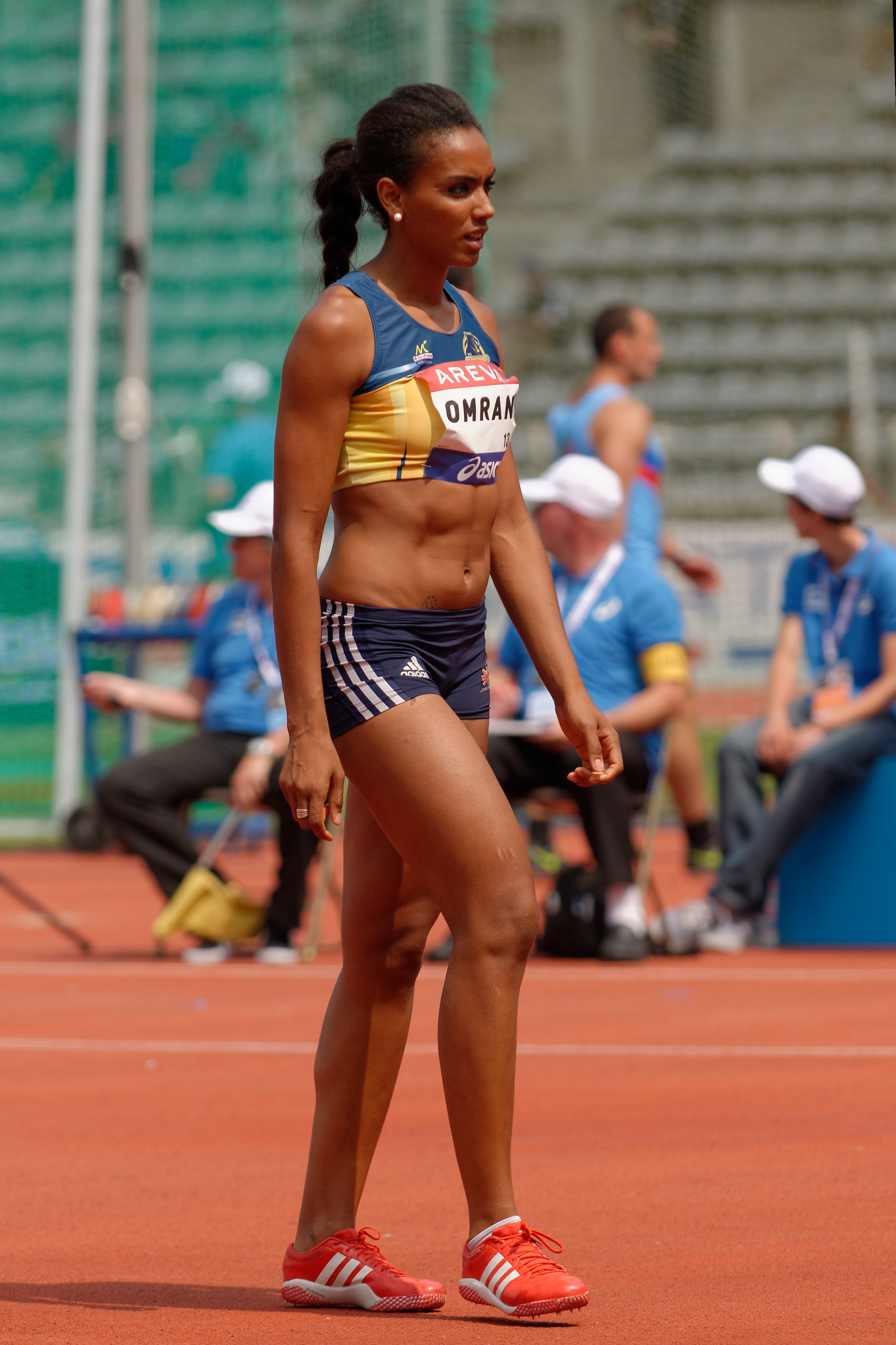 Yassmina Omrani competes in the women's high jump during the French Athletics Championships 2013 at Stade Charléty in Paris, 13 July 2013.